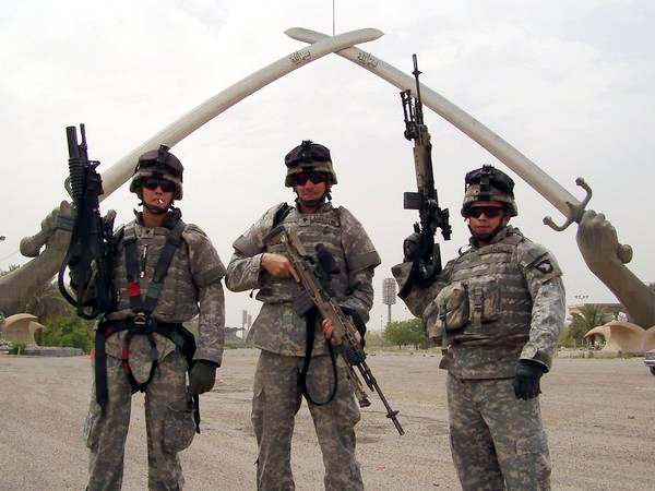 Soldiers from the en:101st Airborne Division in Baghdad equipped with modified M14s [far left is equipped with a M4].